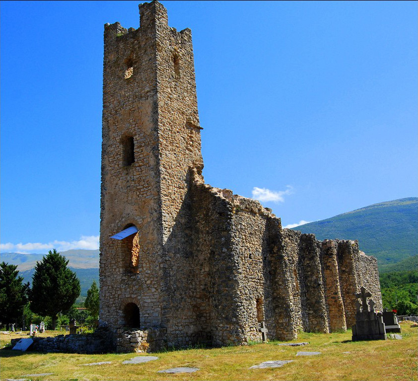 Pre-Romanic Holy Salation church at the source of river Cetina